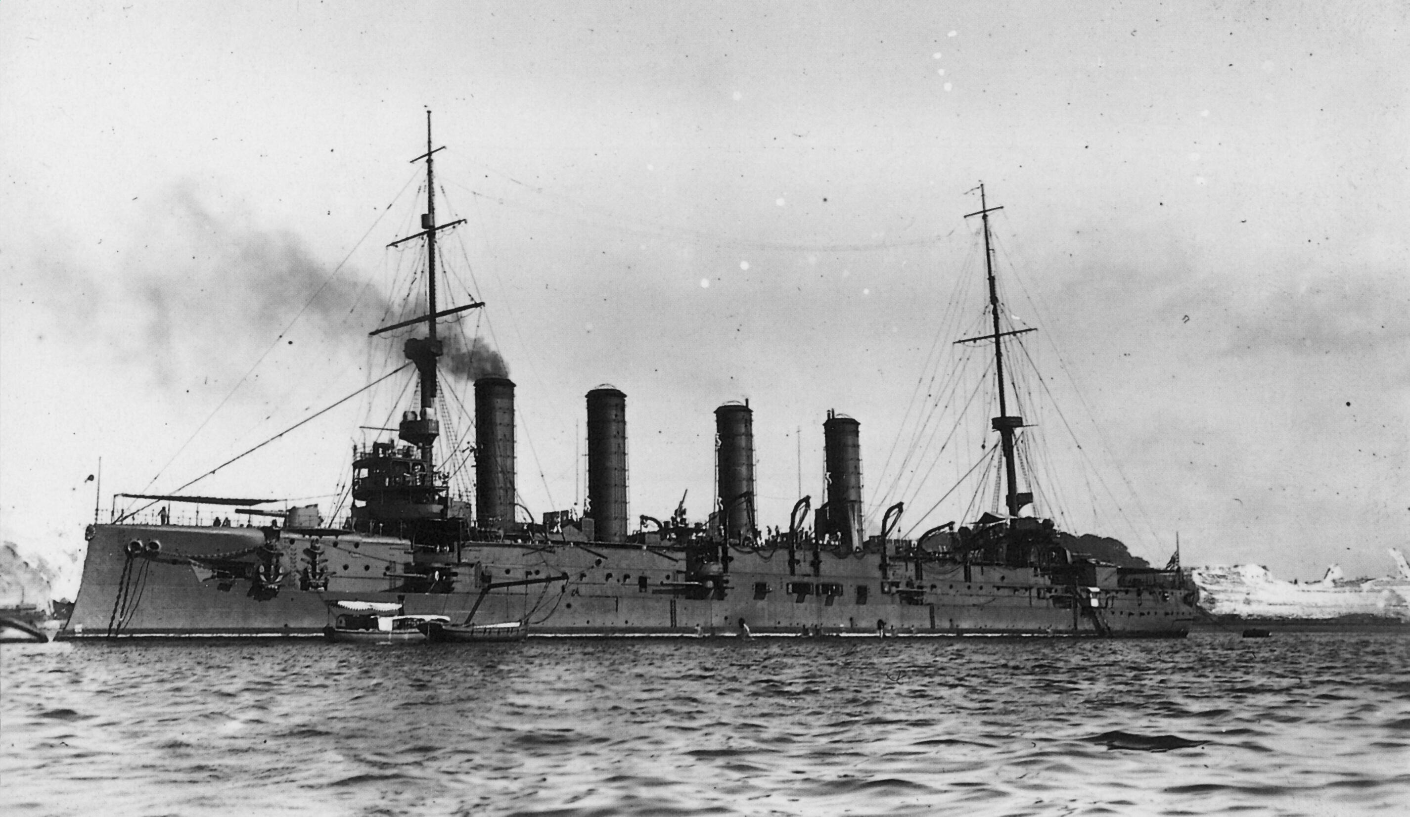 Imperial Japanese cruiser Aso at Yokosuka, 1924.